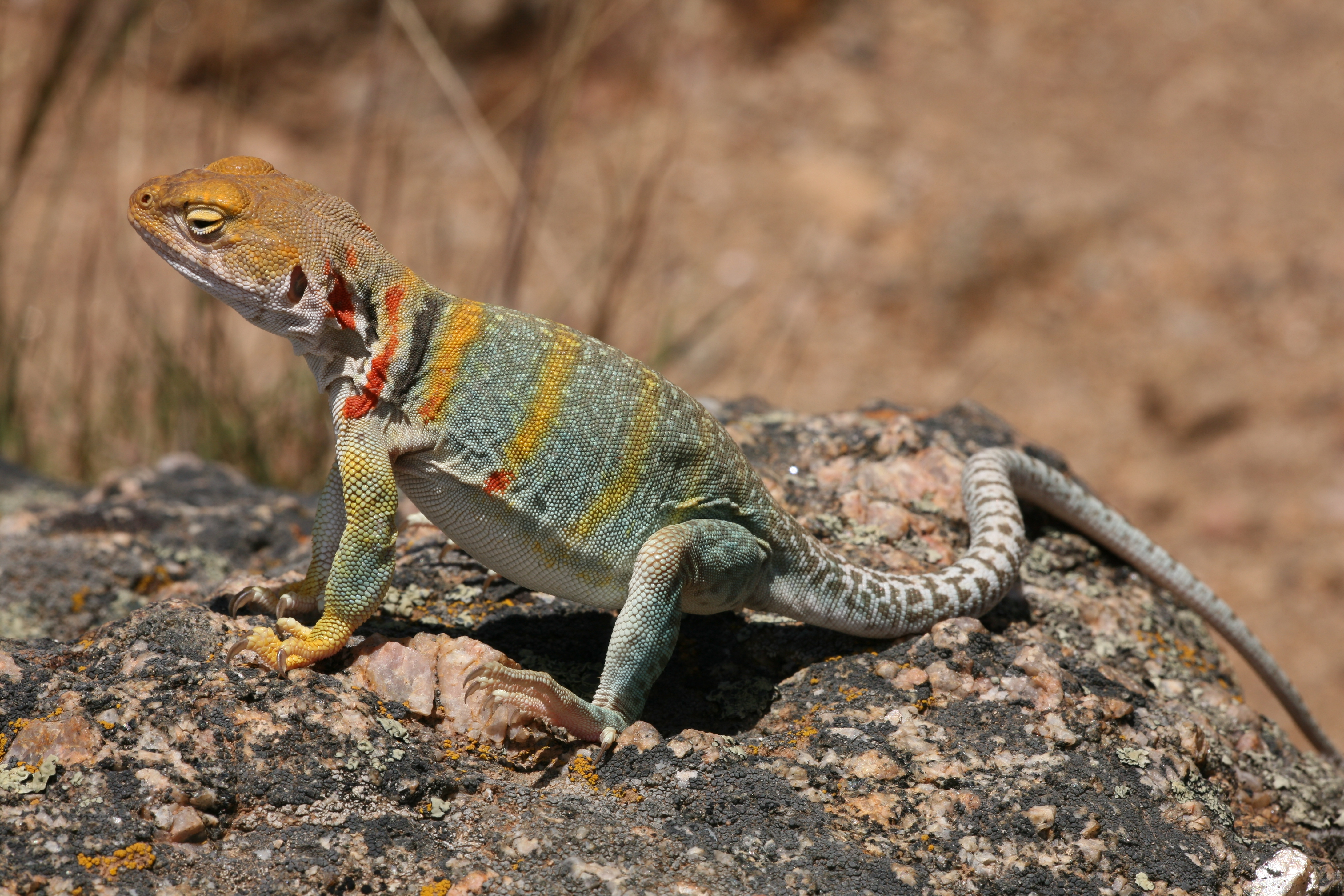 Collared Lizard (Crotaphytus collaris) in Black Canyon of the Gunnison National Park